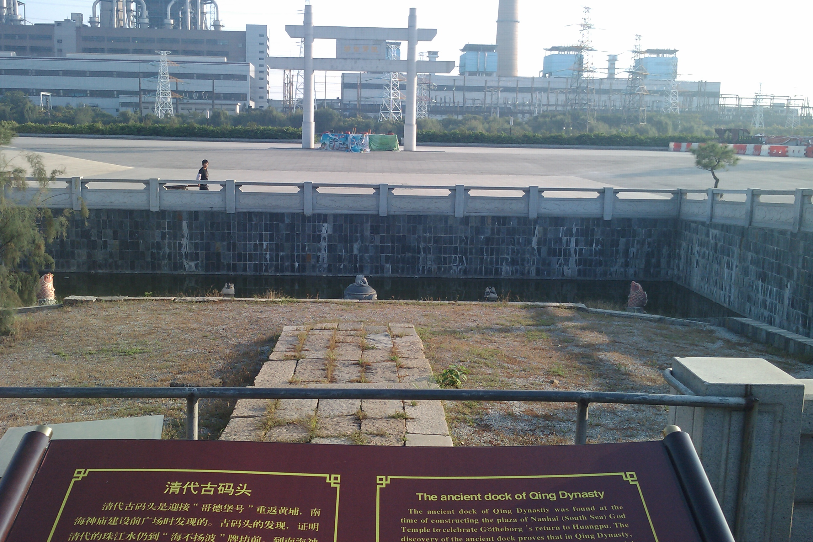 The ancient dock of Qing Dynasty at Nam Hoi(Nanhai) King Temple in Canton, China.